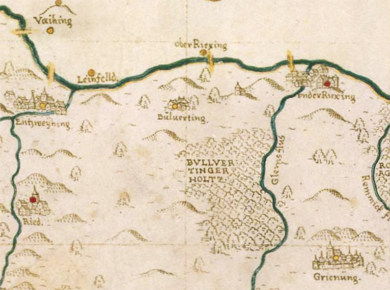 Pulverdingen 1590